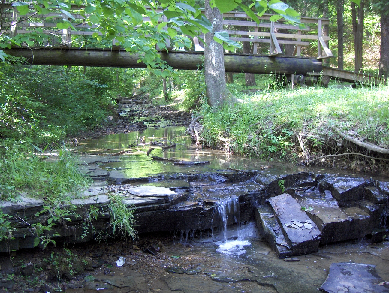 Bee Lick Creek, Jefferson Memorial Forest, near Louisville, Kentucky